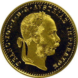 ENSIGN